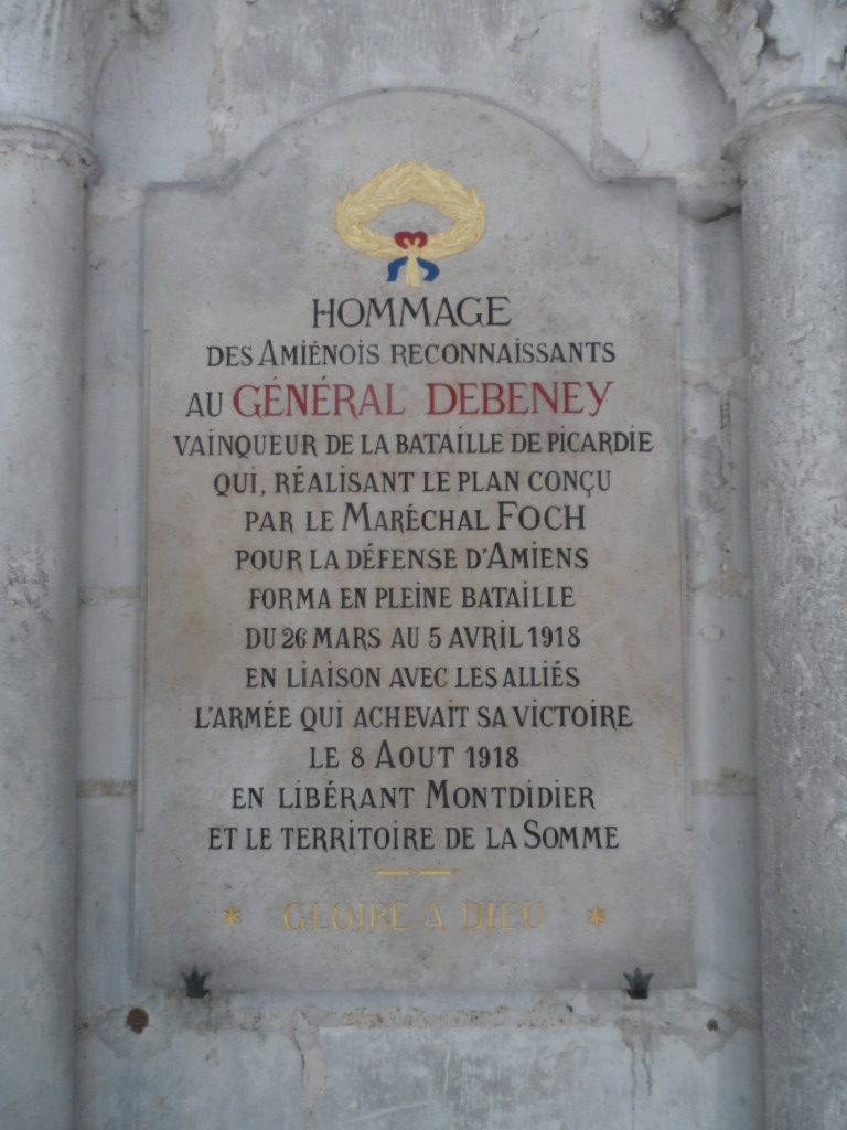 Memorial tablet to General Marie-Eugene Debeney (1864-1943) in Amiens Cathedral, Amiens, France.